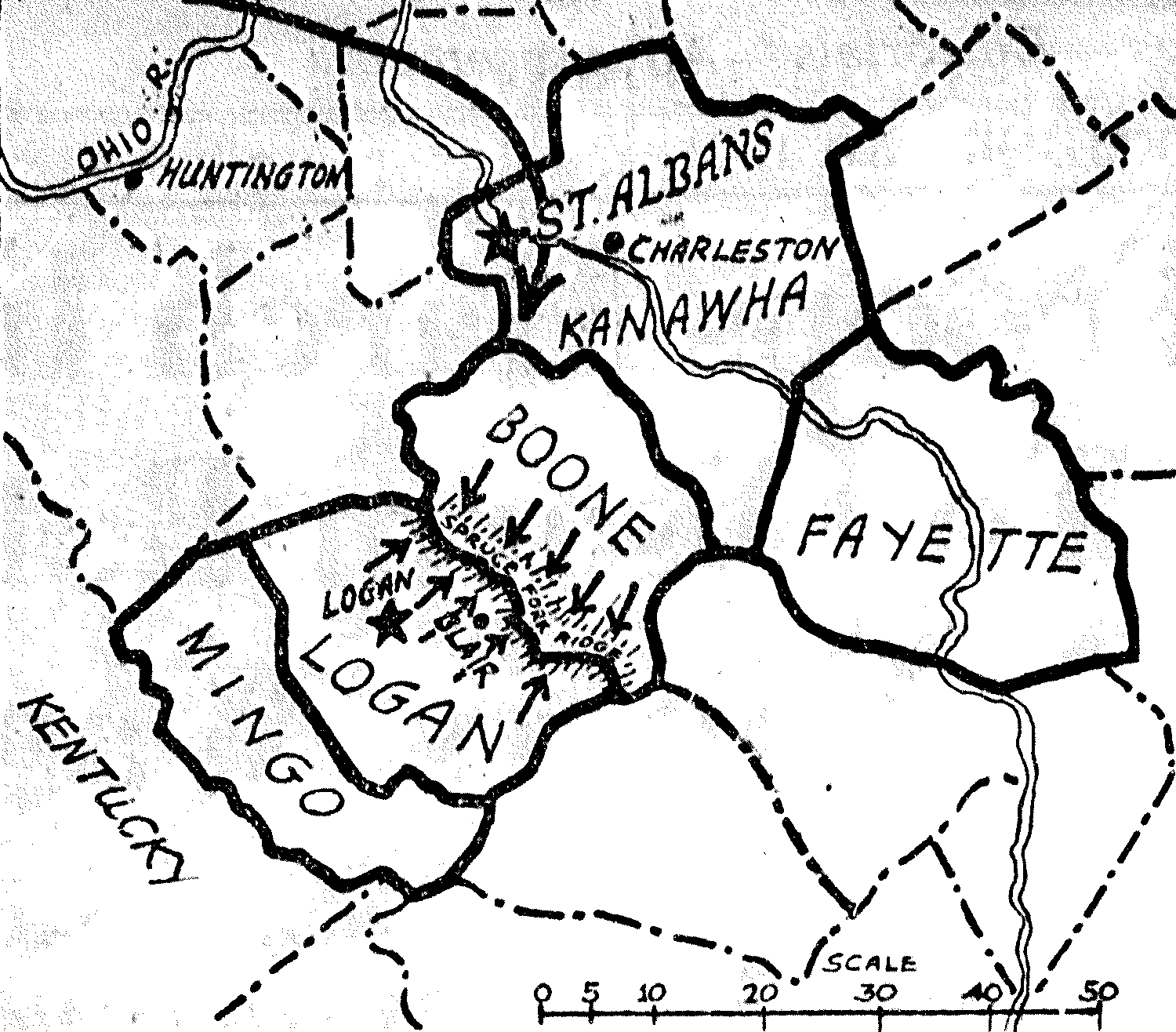 Map of the movement of federal troops arriving in West Virginia during the Battle of Blair Mountain. Also the location of union and nonunion fighters is indicated. The long arrow is the path of federal troops with their base being St. Albans. The short arrow in Logan are the nonunion fighters with their base being in Logan.